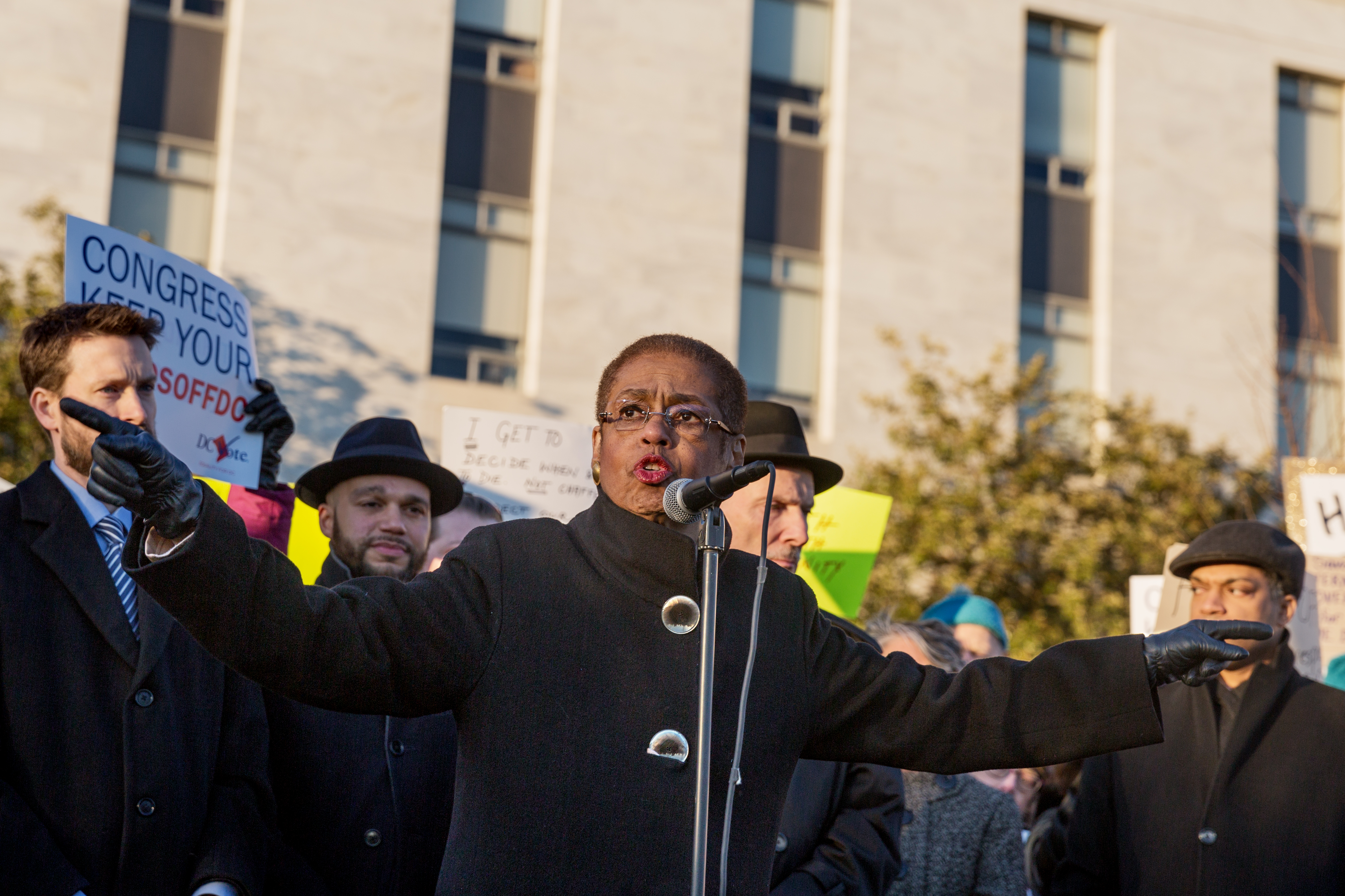 "We’re not going to be bullied out of our laws. Hands off DC. I should not have to defend DC’s local laws."